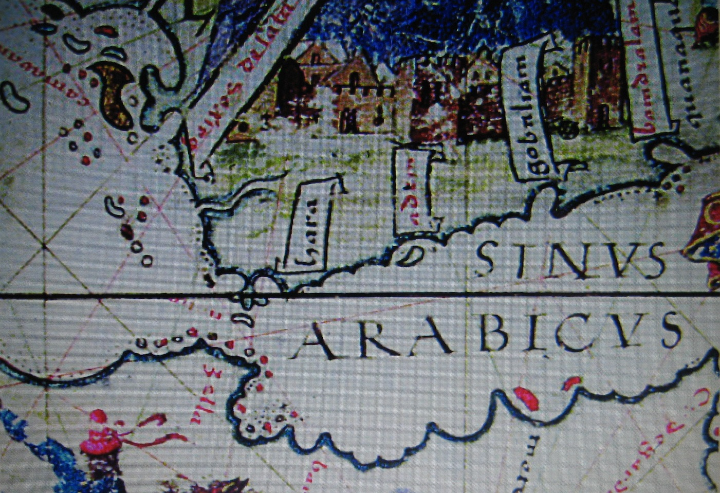 Enlarged view of a section of one of the panels of the 1519 Lopo Homem-Reineis Atlas (the Miller Atlas) showing the Gulf of Aden and the south of the Red Sea. The island of Perim ("Majun" on the map, from the Arabic Mayyun) is clearly shown at the junction of the Gulf and the Sea. To the north of Perim one can see the larger island of Kamaran ("Camaran"), that Albuquerque's fleet used as a base for some time after penetrating the Red Sea following its failure to capture Aden in 1513. Aden, a peninsula, is shown as an island, as on many later maps and engravings.